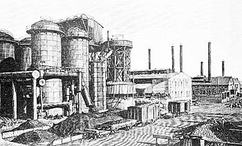 Blast furnace DMK (Kamianske)